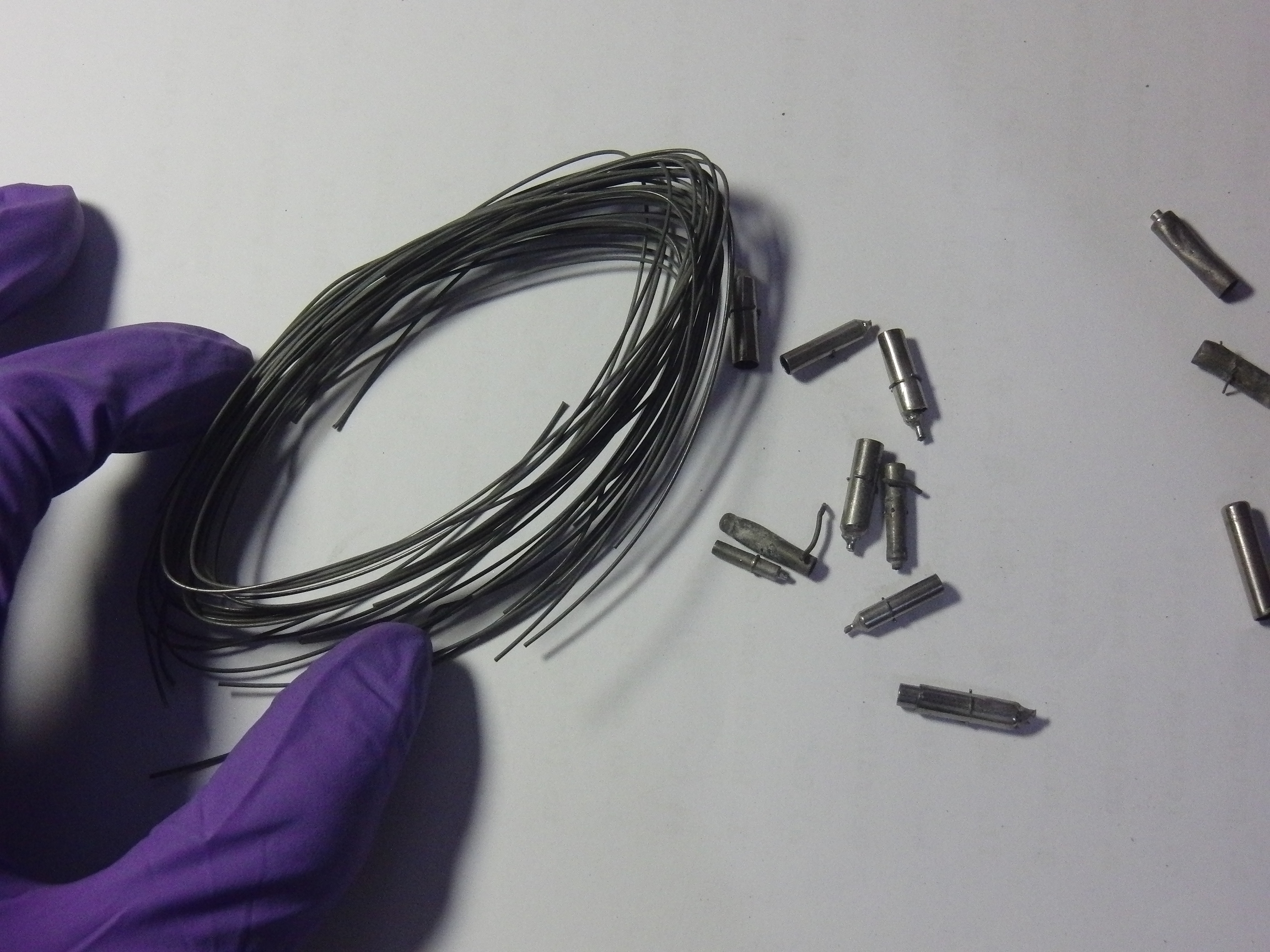 Niobium wire, Niobium tube.